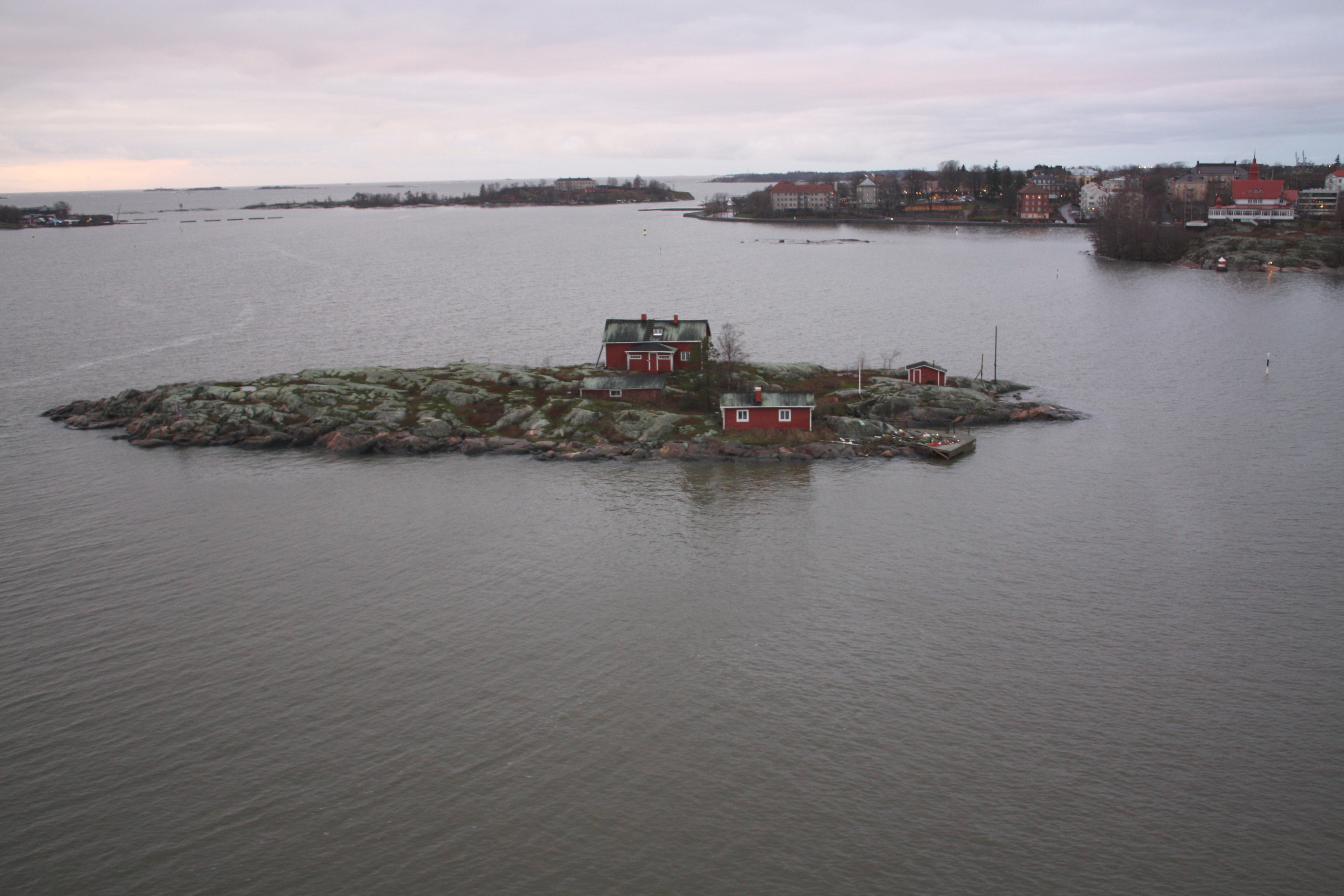 Ryssänsaari Island in front of Helsinki